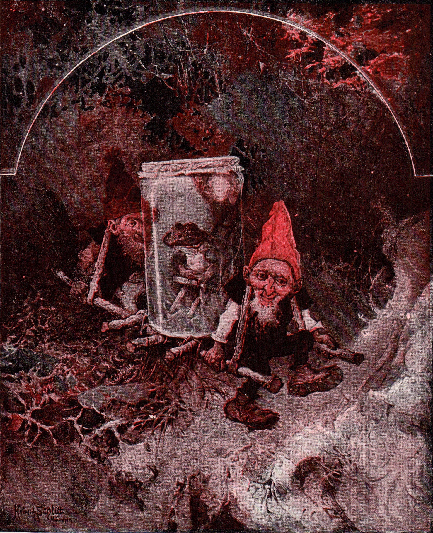 This illustration is from the public domain book, The Book of Knowledge, The Children’s Encyclopedia, Edited by Arthur Mee and Holland Thompson, Ph. D., Vol II, Copyright 1912, The Grolier Society of New York. The original copyright for these books was 1899. This is after page 328 from the story, "The Goblins in the Gold-Mine" Photo caption: THE GOBLINS PUT THE VASE ON A TRESTLE AND CARRIED SINGORRA THROUGH THE FOREST Flickr data on 2011-08-18: Tags: 1912, book, Book of Knowledge, copyright free, creative commons, dance, flickr, free License: CC BY 2.0 User: perpetualplum Sue Clark